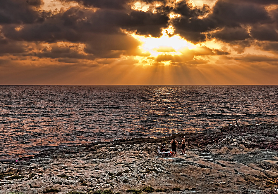 SUNSET